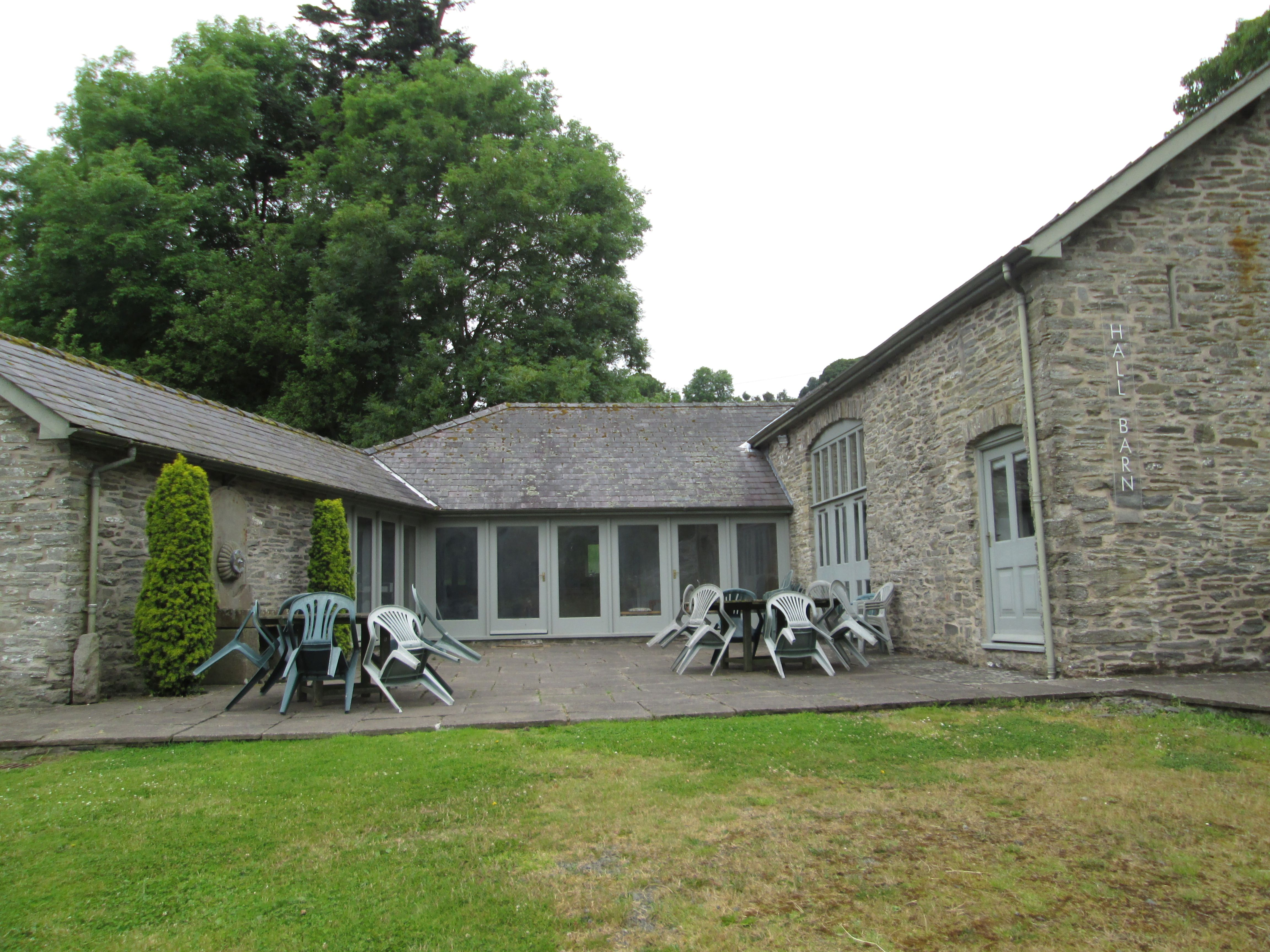 A view of the exterior of Hall Barn at the Bleddfa Centre